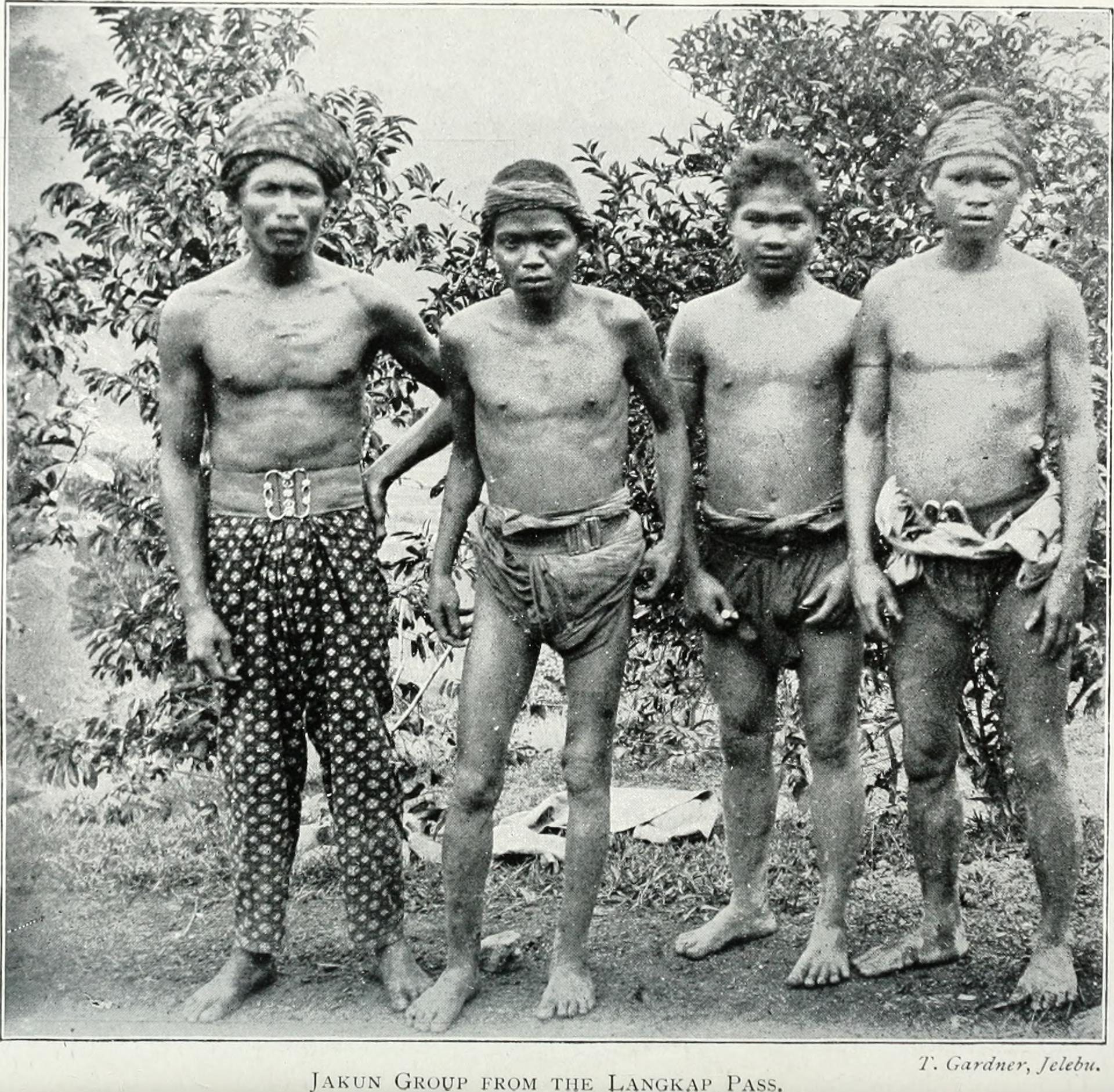 Title: Pagan races of the Malay Peninsula Year: 1906 (1900s) Authors: Skeat, Walter William, 1866- Blagden, Charles Otto, 1864-1949 Subjects: Ethnology -- Malay Peninsula Malays (Asian people) Malay Peninsula -- Social life and customs Malay Peninsula -- Religion Malay Peninsula -- Aboriginal dialects Publisher: London : Macmillan and Co., limited (etc., etc.) Text Appearing Before Image: 8i5 Text Appearing After Image: MALACCA.